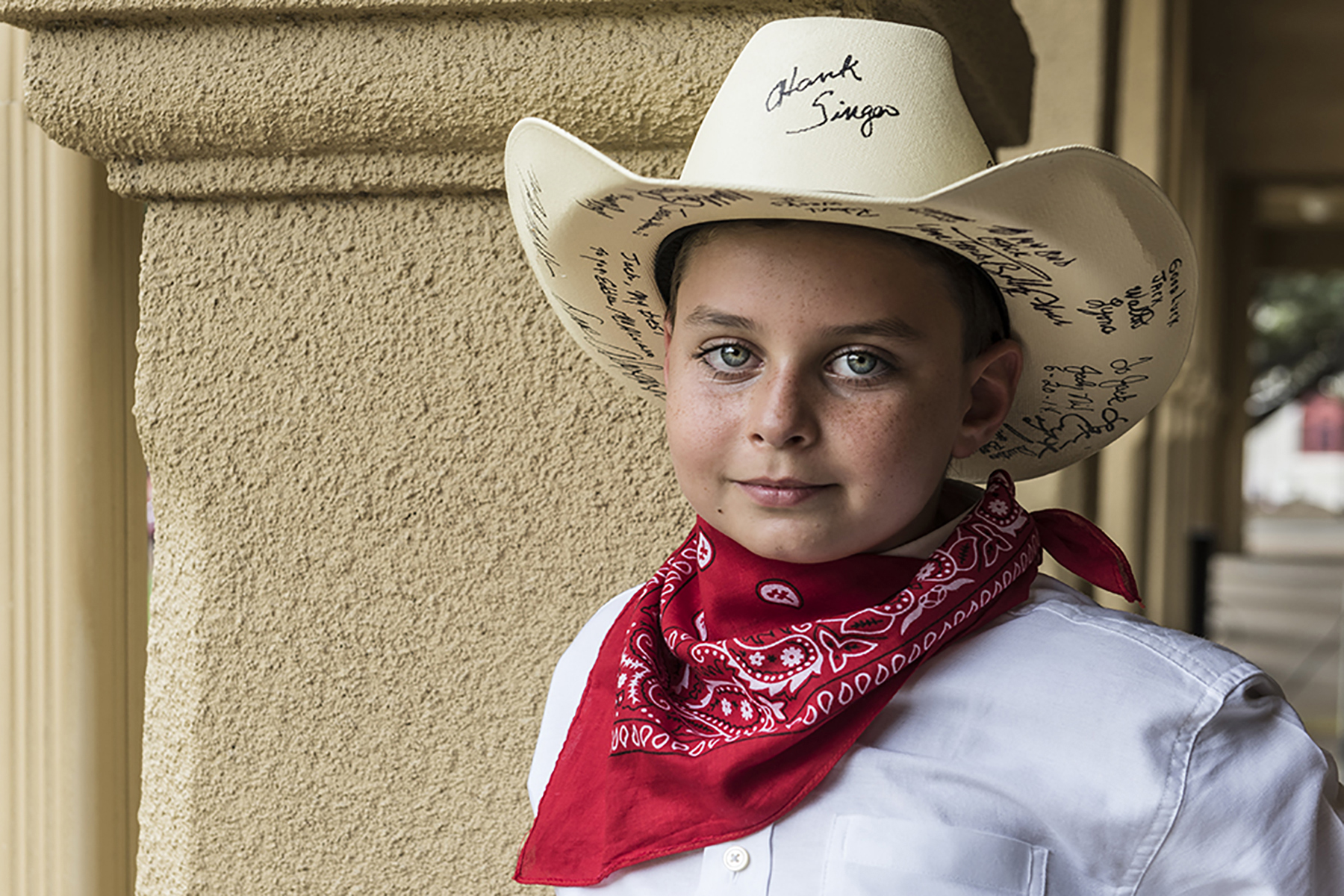 Young cowboy in Fort Worth, Texas, United States